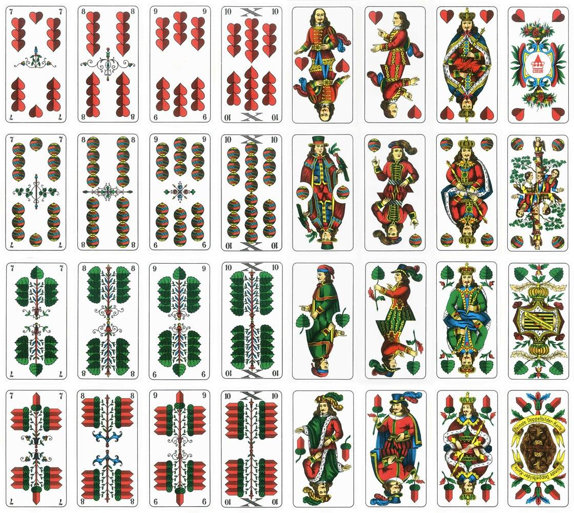 A deck of playing cards from Altenburg, Thuringia, Germany. This the so called Saxonian deck.